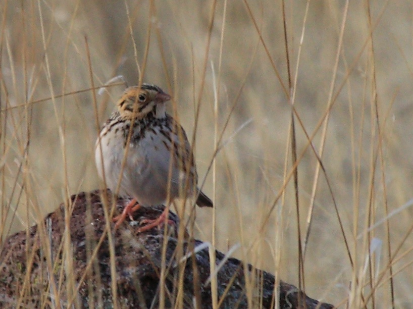 Baird's Sparrow (Ammodramus bairdii)